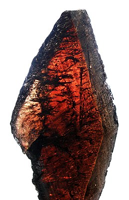 Manganaxinite Locality: Vitória da Conquista, Bahia, Northeast Region, Brazil (Locality at ) Size: miniature, 5.5 x 2.4 x 0.8 cm Ferro-axinite Most people today do not realize that before the finds from California and the Ural Mountains, in the last couple of decades, the world's best gem axinites came from Brazil (even if larger ones came rarely from Japan in the 1800s, they weren't gemmy). Bahia today produces many other minerals, but the axinite deposit seems to be gone. This beautiful, gemmy, transparent crystal is nearly a floater...it is doubly-terminated, but with a small contact on one tip. It has some minor edge wear, which is more obvious in the photos than in person and is not so very detracting given the size and age of the piece. According to museum records, this was in a Donahue collection.